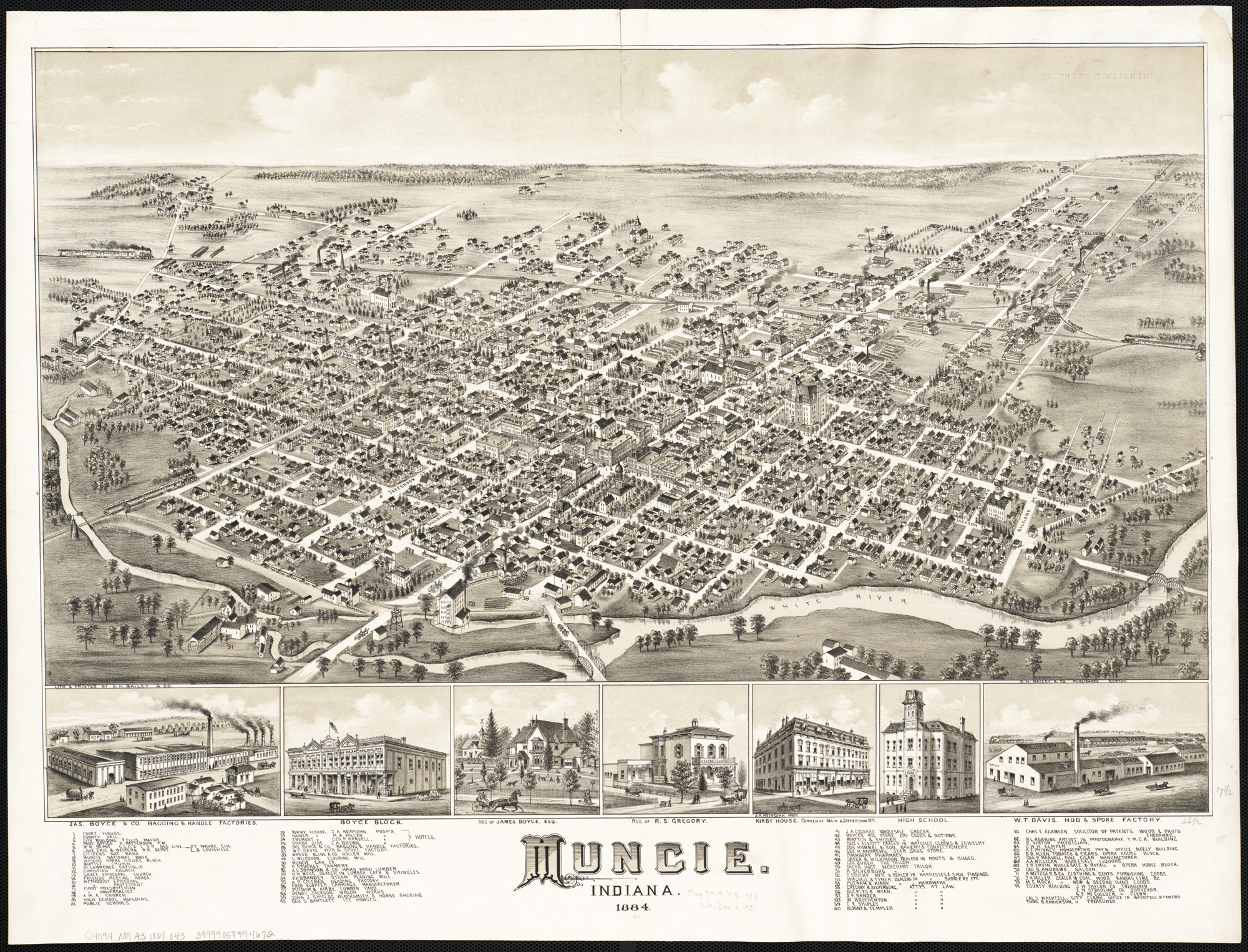 Zoom into this map at . Author: O.H. Bailey & Co. Publisher: O.H. Bailey & Co. Date: 1884 Location: Muncie (Ind.) Scale: Not drawn to scale. Call Number: G4094.M9A3 1884.O43